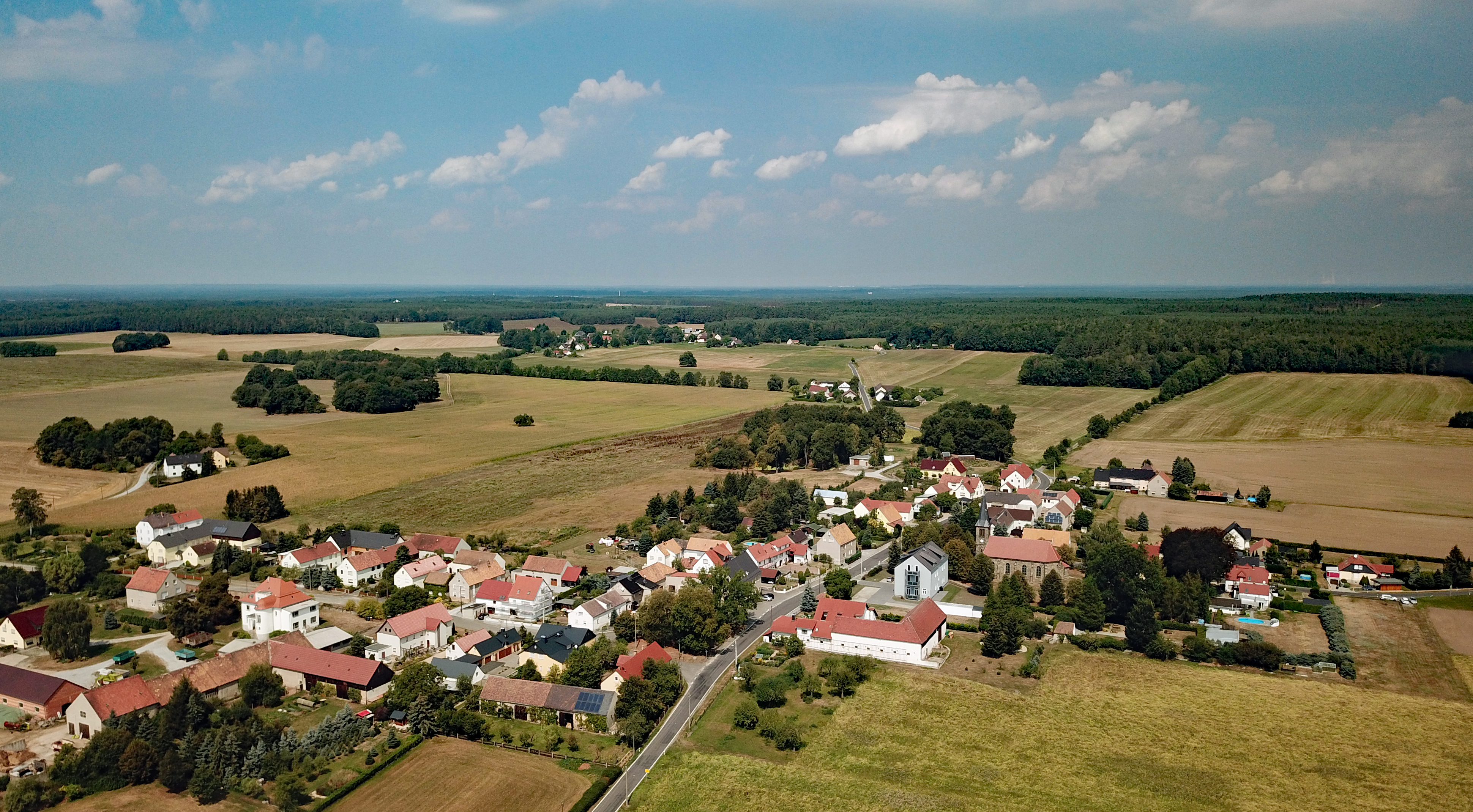 Luppa (Radibor, Saxony, Germany) Hornjoserbsce: Powětrowy wobraz Łupoje